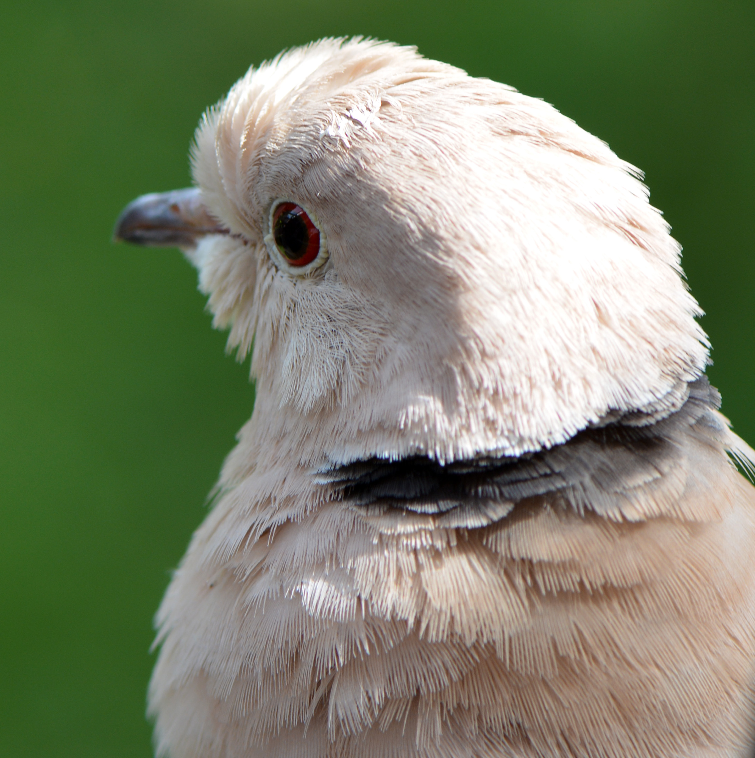 Streptopelia decaocto (juvenile)